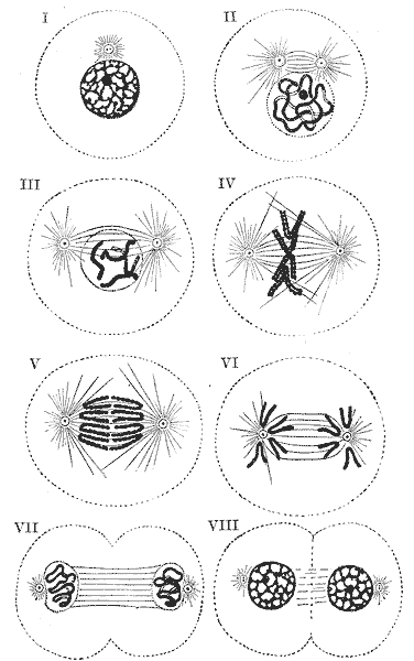 Diagram showing the changes which occur in the centrosomes and nucleus of a cell in the process of mitotic division. (Schäfer.) I to III, prophase; IV, metaphase; V and VI, anaphase; VII and VIII, telophase. en: I to III, prophase IV, metaphase V and VI, anaphase VII and VIII, telophase. de: I - III: Prophase IV: Metaphase V und VI: Anaphase VII - VIII: Telophase es: I,II,III: PROFASE IV: PROMETAFASE V: METAFASE VI: ANAFASE VII,VIII:TELOFASE